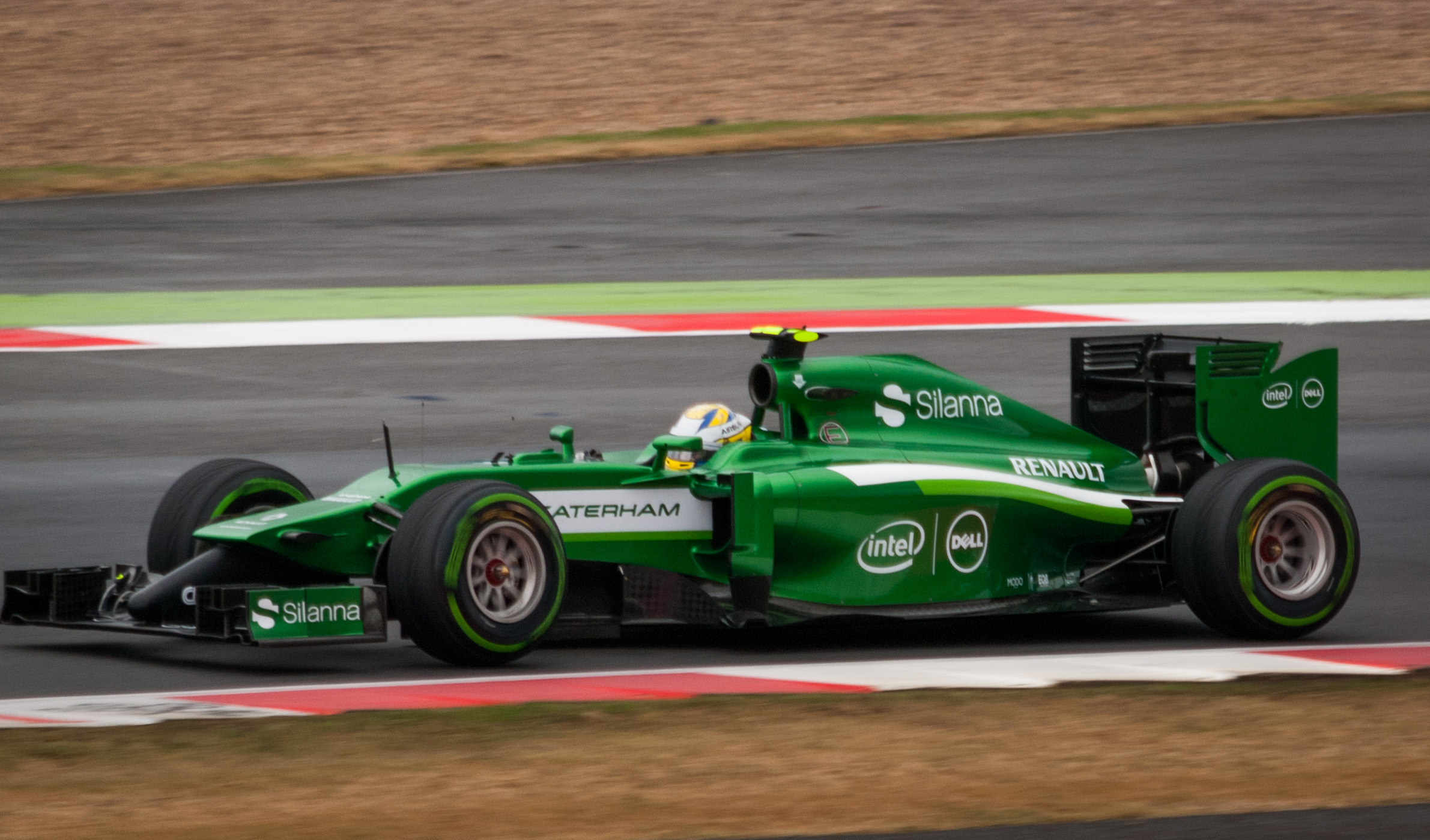 Marcus Ericsson in his Caterham CT05 during the 2014 British Grand Prix Weekend.